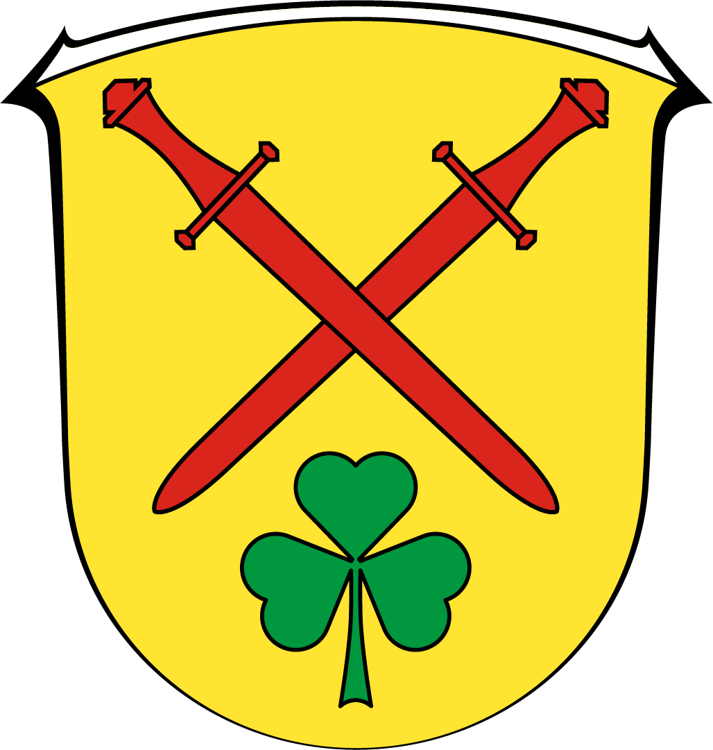 Coat of Arms of Langgöns